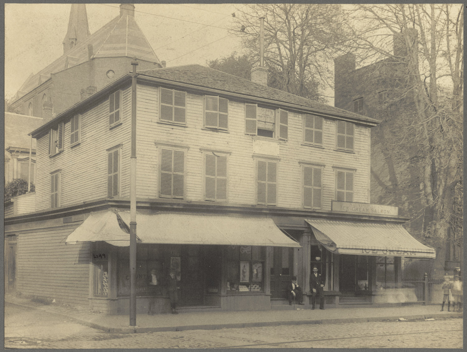 Birthplace of Samuel F. B. Morse, Charlestown, Ma. 1898 (approximate). Photograph. Morse, the inventor of the telegraph, was born in this building on Main Street in Charlestown.